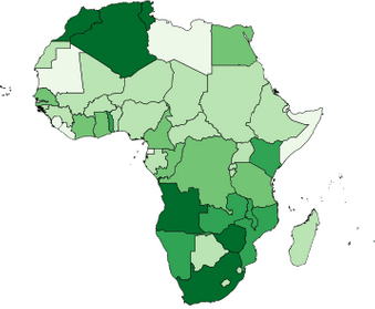 Distribution of permanent European settlement in colonial Africa, 1962. NOTE: This map is not an accurate reflection of current European or white African population distribution in postcolonial Africa. Do not update this map to reflect post-1962 figures. Under 1,000 Over 1,000 Over 10,000 Over 50,000 Over 100,000